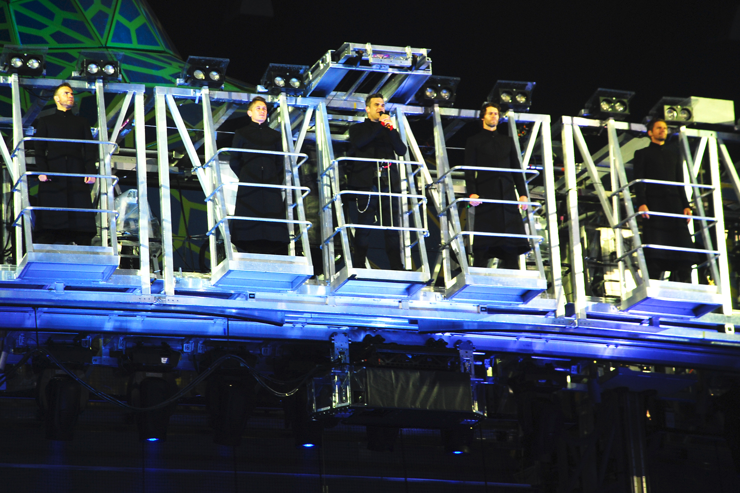 Take That & The Pet Shop Boys, Manchester 12 June 2011